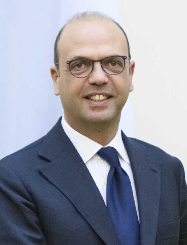 Прем’єр-міністр України Володимир Гройсман зустрівся з Міністром закордонних справ Італії Анджеліно Альфано опубліковано 30 січня 2018 року о 18:00